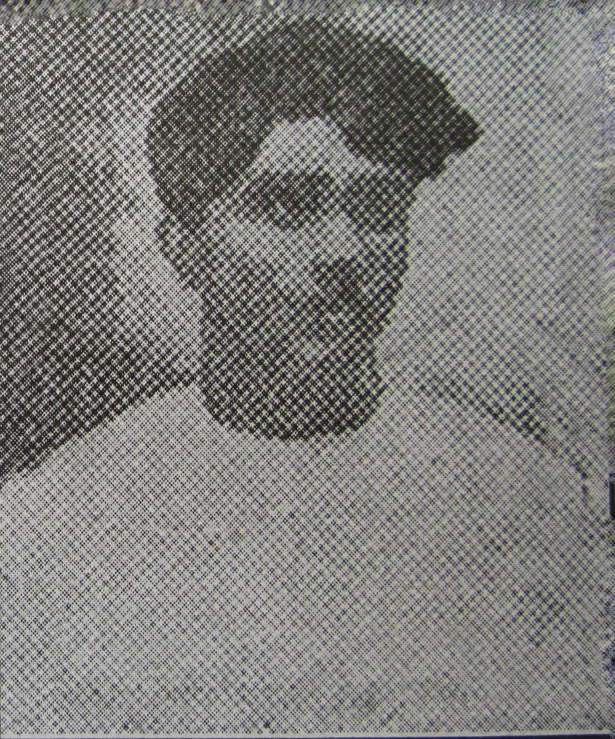 Provaschandra Bal